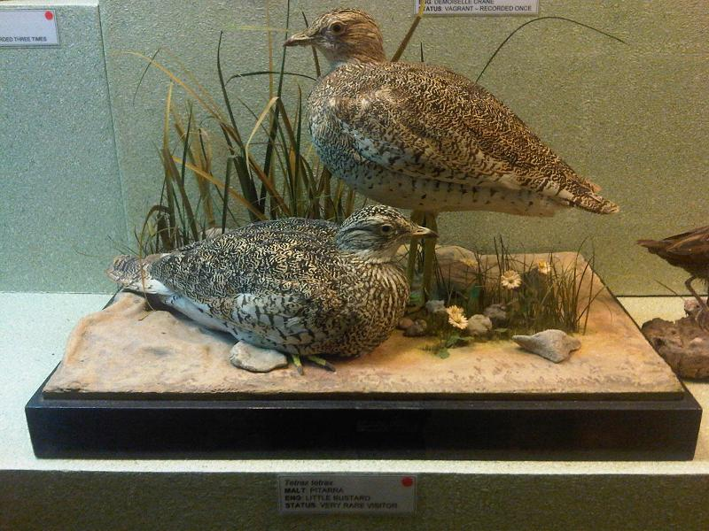 Stuffed Little Bustards (Tetrax tetrax) at the National Museum of Natural History, Vilhena Palace, Republic of Malta.